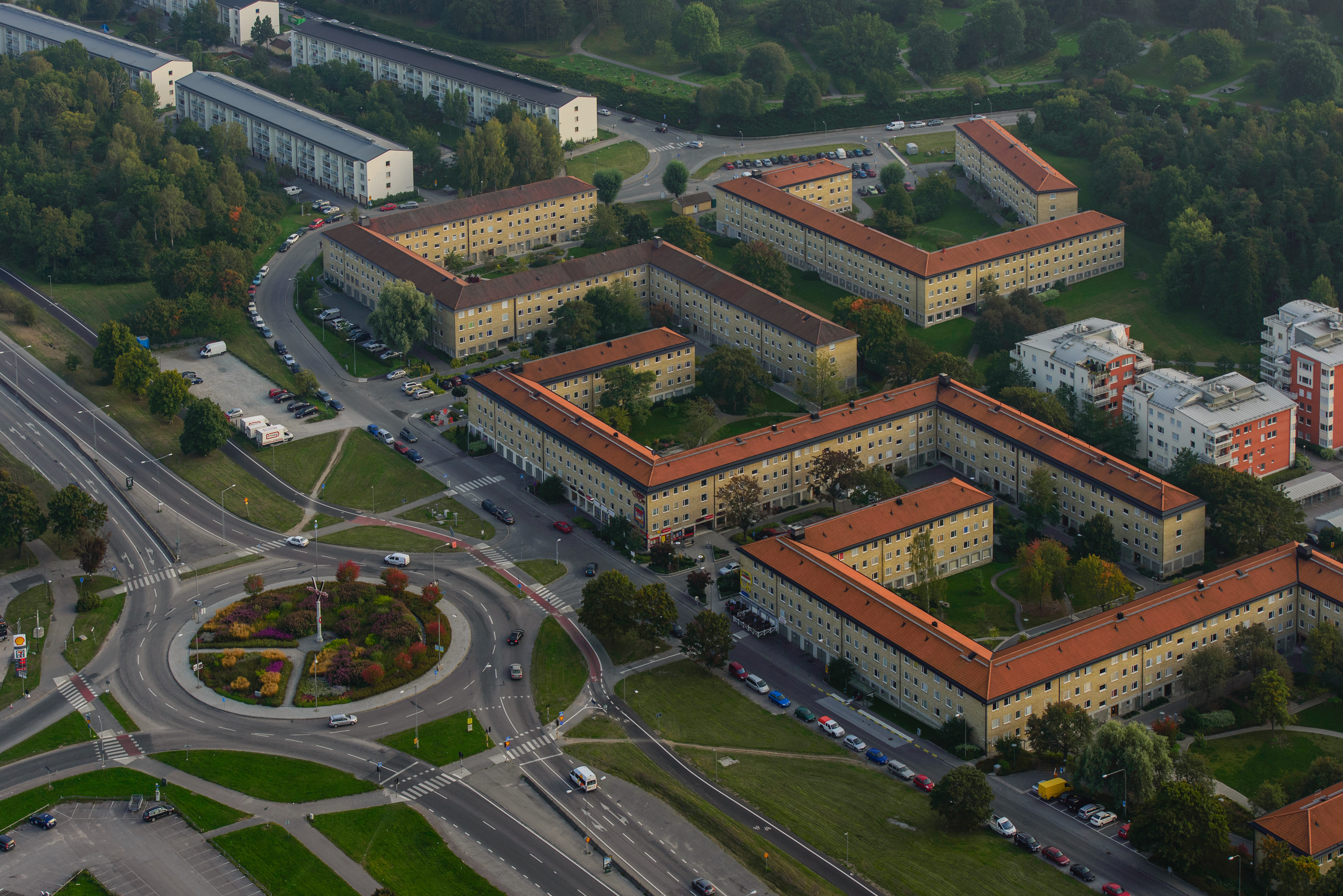 Bergslagsvägen and Grimsta.